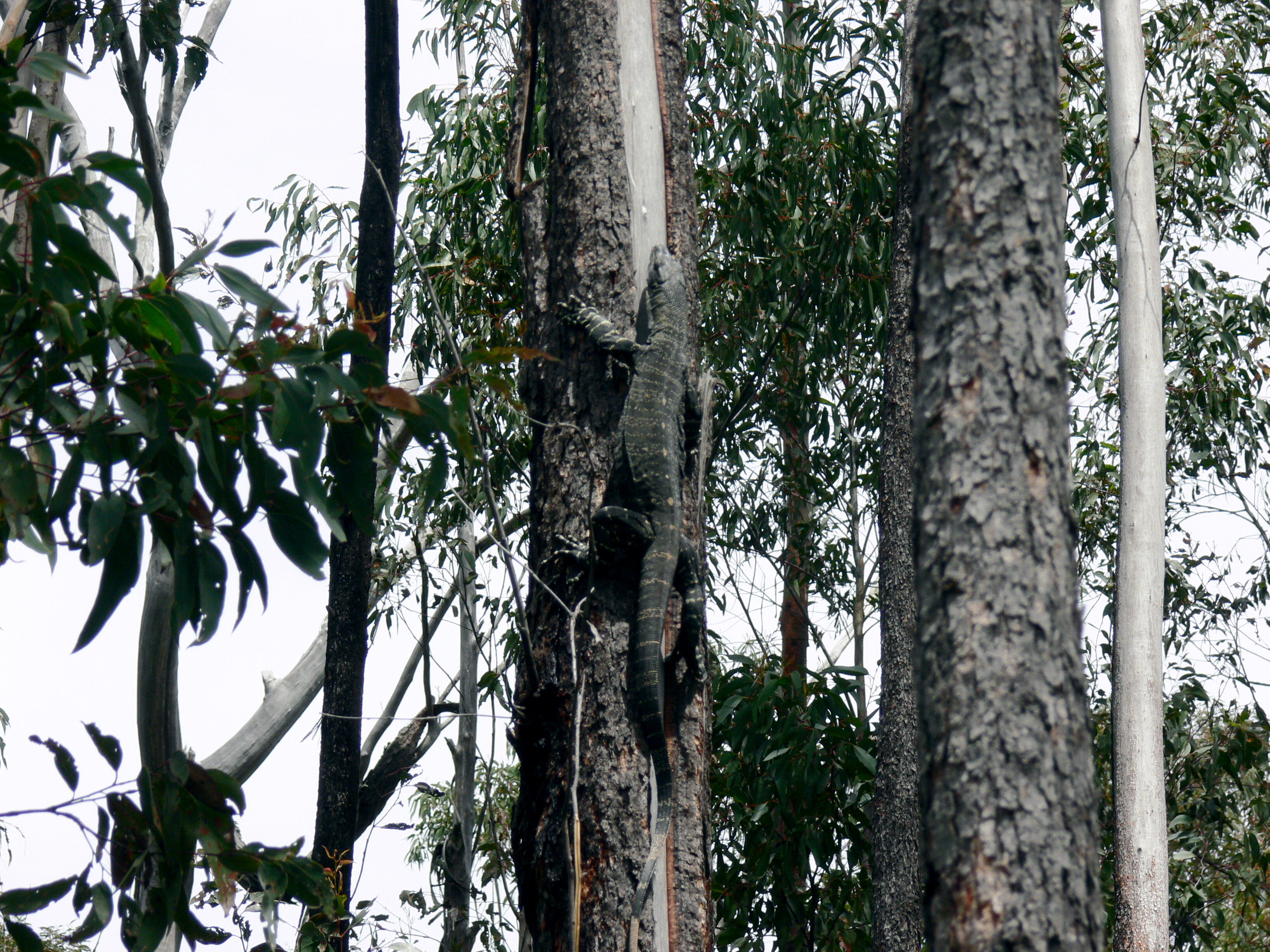 Lace monitor (goanna), Varanus varius, climbing tree near Bellbird Creek, Gippsland. The reptile is over 1m in length. Note how the patterned skin blends with the colour of the bark of the tree.